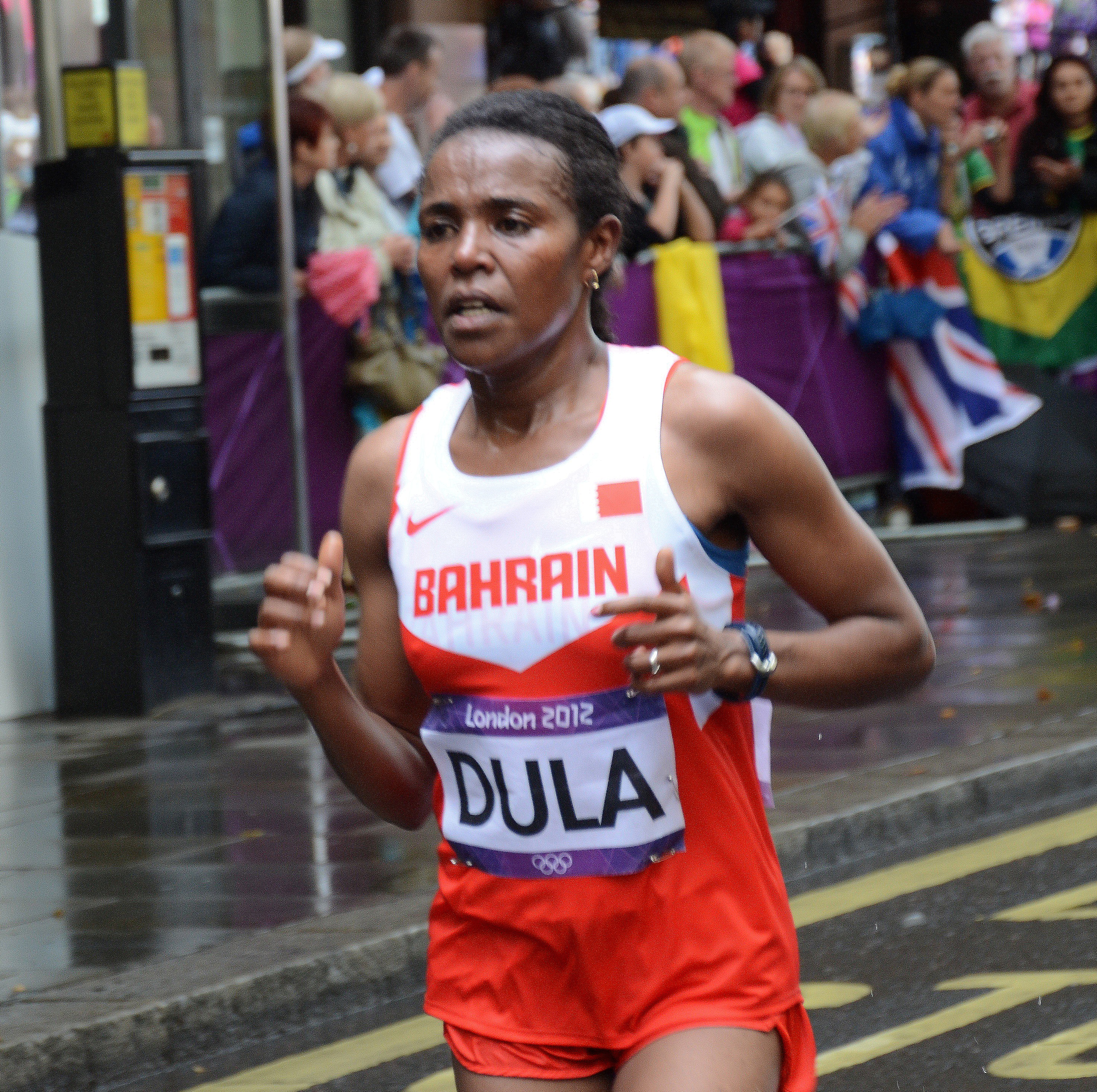 Lishan Dula (Bahrain) in the marathon (w) at the Olympic Games 2012